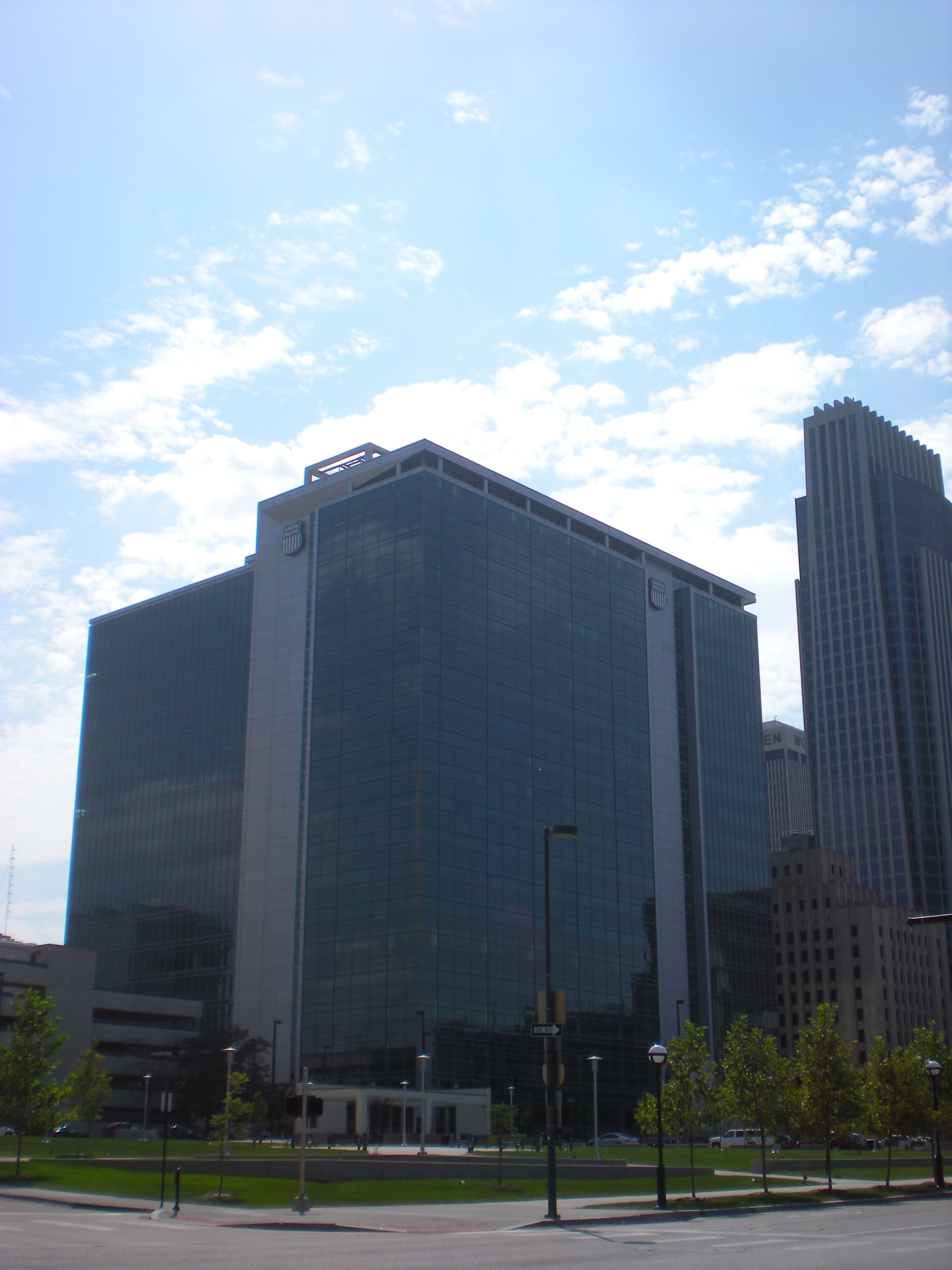 Union Pacific Center in Downtown Omaha